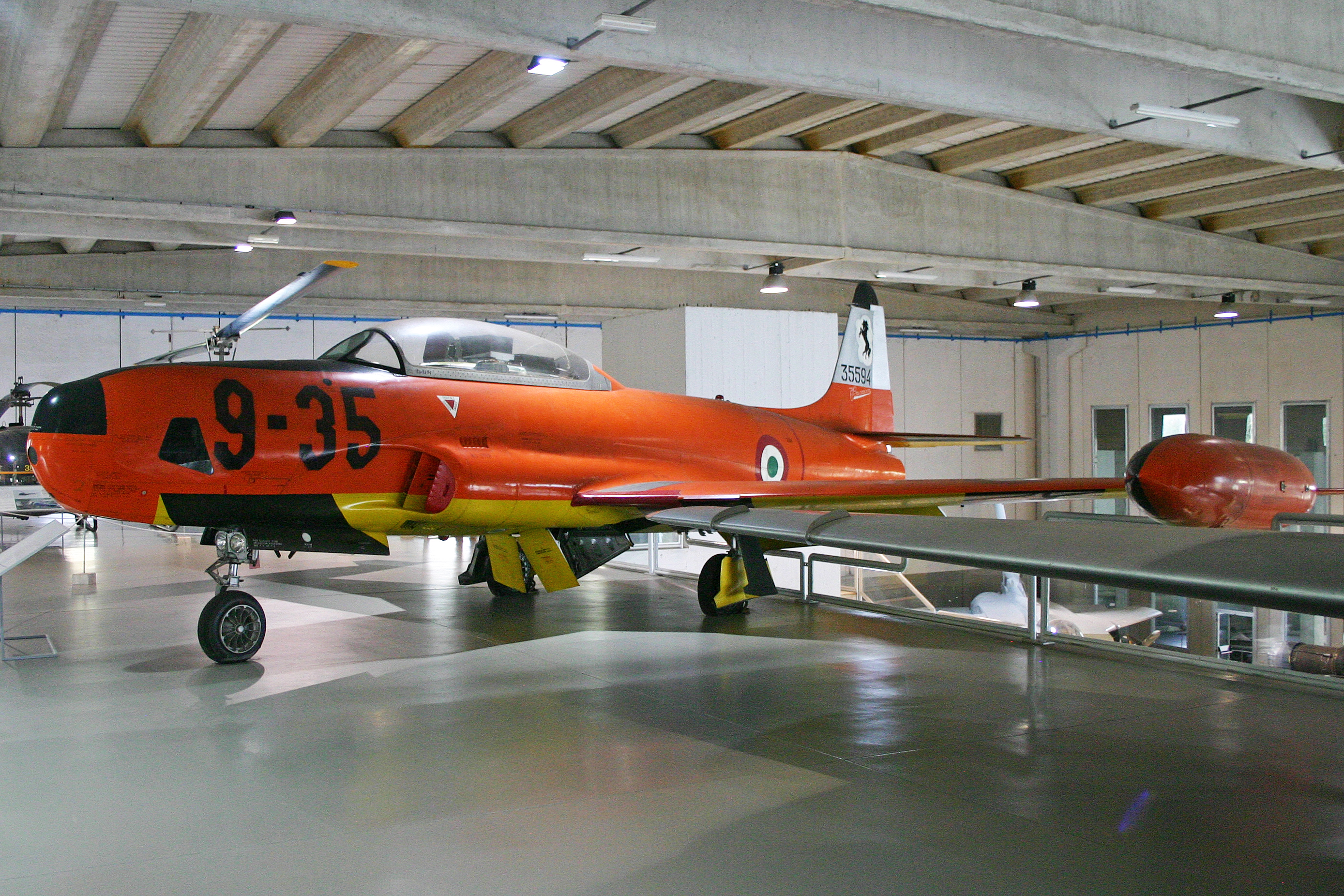 Display on the Balcony of Hangar SKEMA. Target tug colour scheme. Ex US mil serial 53-5594. msn 580-8933